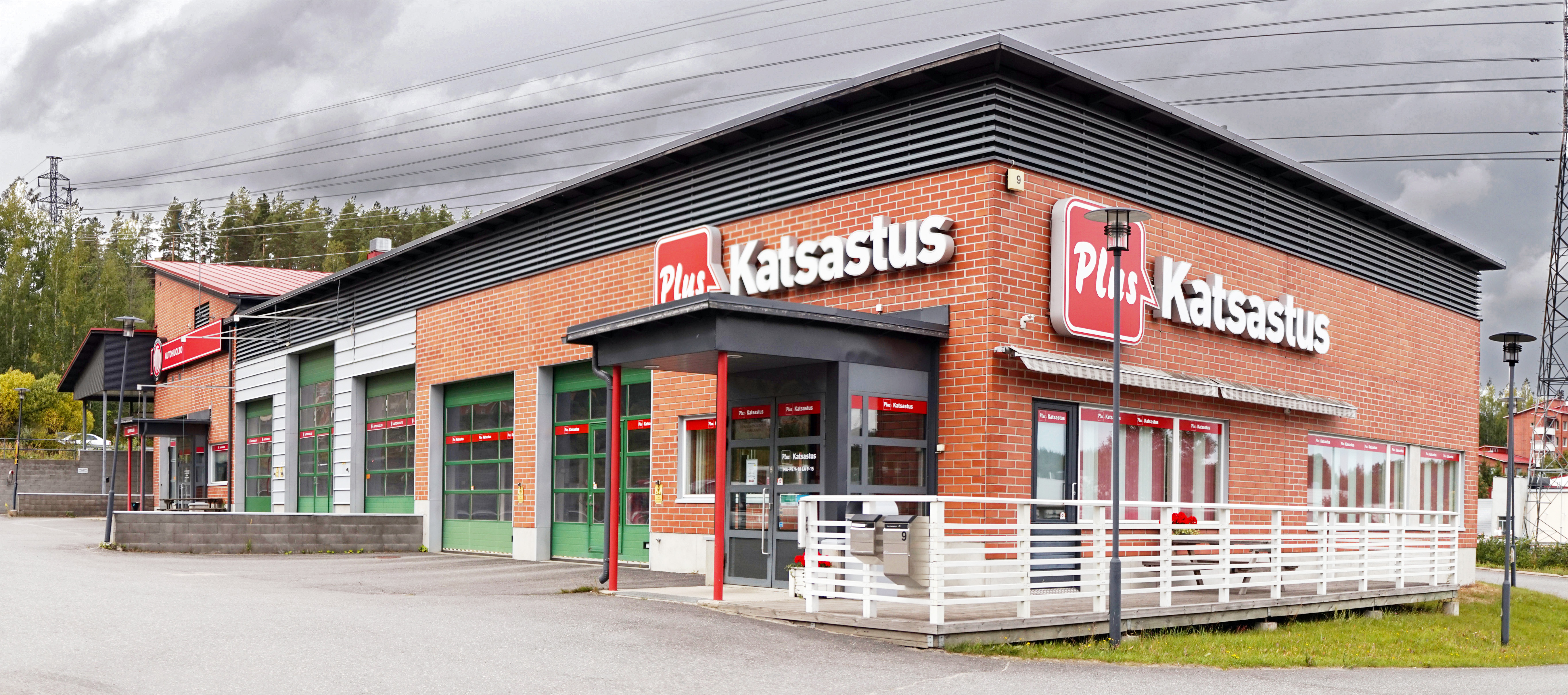 Vehicle inspection Plus Katsastus.